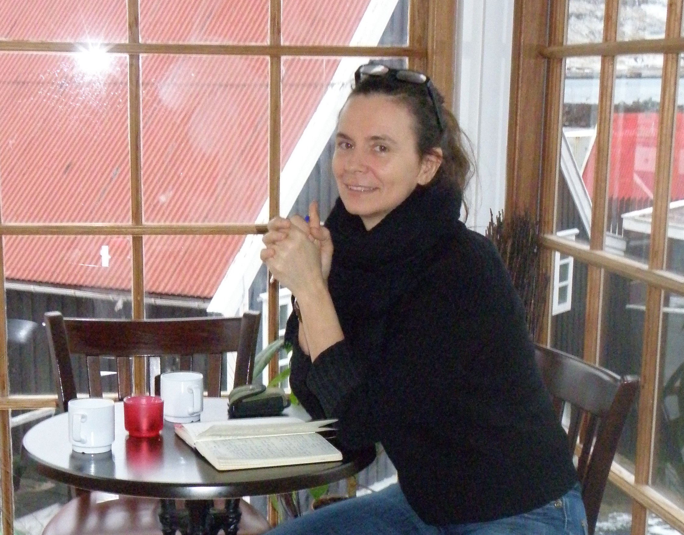 Threes Anna is a writer, theatre and film maker from the Netherlands. She visited the Faroe Islands in January, February and in July 2010. This photos was taken on the Sail Loft in Tvøroyri, while she visited the island Suðuroy for a few days. Føroyskt: Threes Anna er ein rithøvundur úr Hollandi (Niðurlondum). Hon var og vitjaði í Føroyum í 2010, tí hon hevur ætlanir um at skriva eina skaldsøgu, sum skal fara fram í Føroyum. Møguliga verður hon seinna gjørd til film.